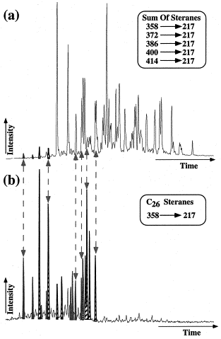 Because C26 steranes are generally present in a magnitude lower than other more common steranes (C27, C28, C29), GC/MS/MS is usually done in order to better analyze the C26 steranes. (a) shows the summation of GC/MS/MS transitions for all steranes whereas (b) shows transitions for only C26 steranes and where those peaks map to the summation.